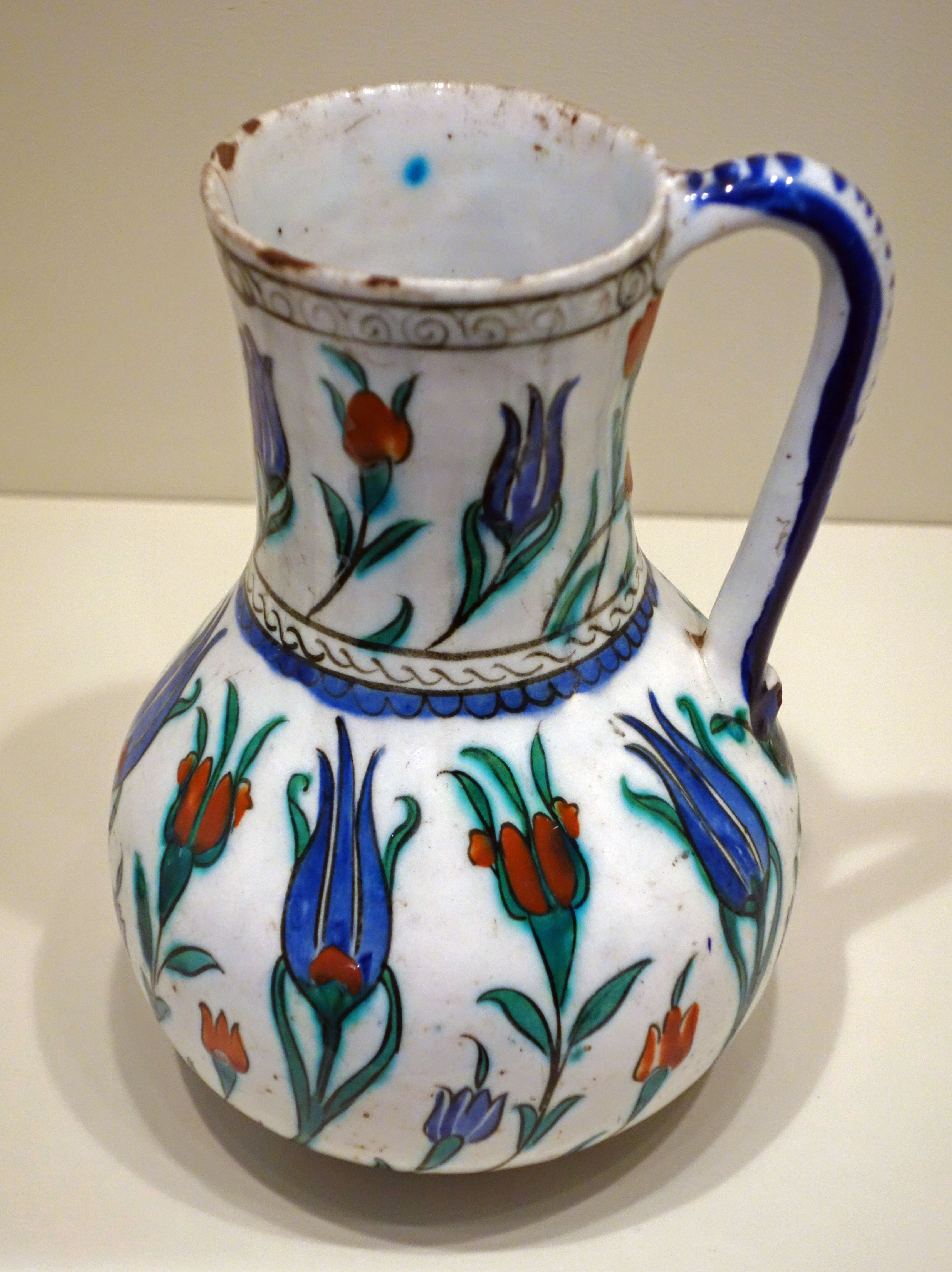 Exhibit in the Cincinnati Art Museum, Cincinnati, Ohio, USA. This artwork is in the public domain because the artist died more than 70 years ago. For similar jugs that date from c. 1590-1600 see : Iznik: The Pottery of Ottoman Turkey, London: Alexandra Press, 1989, ISBN 978-1-85669-054-6, pages 270-271 figs. 598, 602.